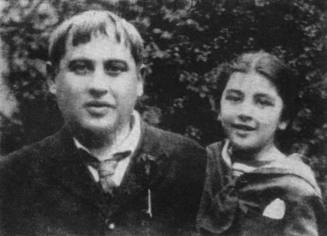 Symbolist poet Titsian Tabidze with his daughter Nita Tabidze